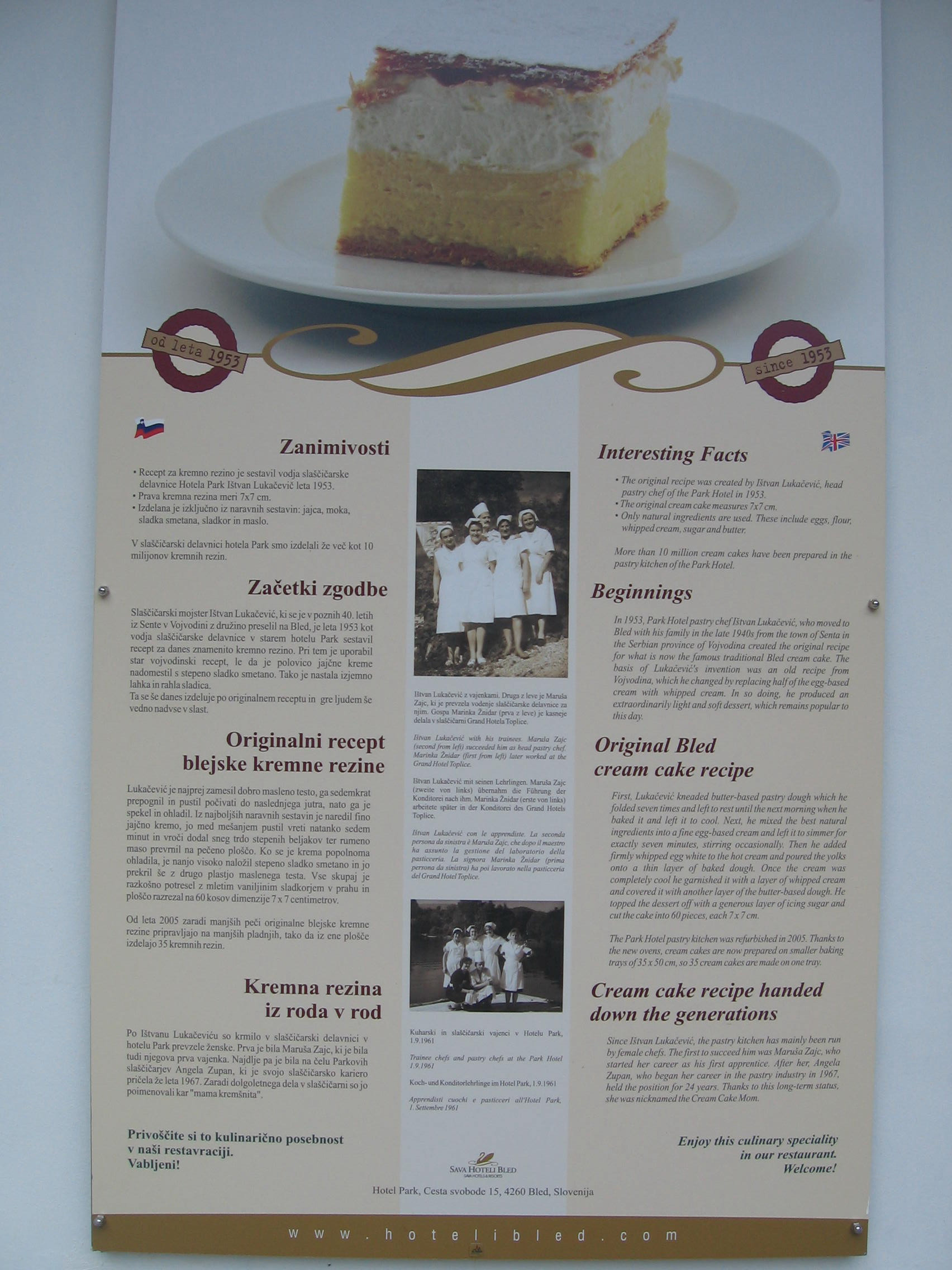 Cremeschnitte from Bled, Hotel park, Slovenia